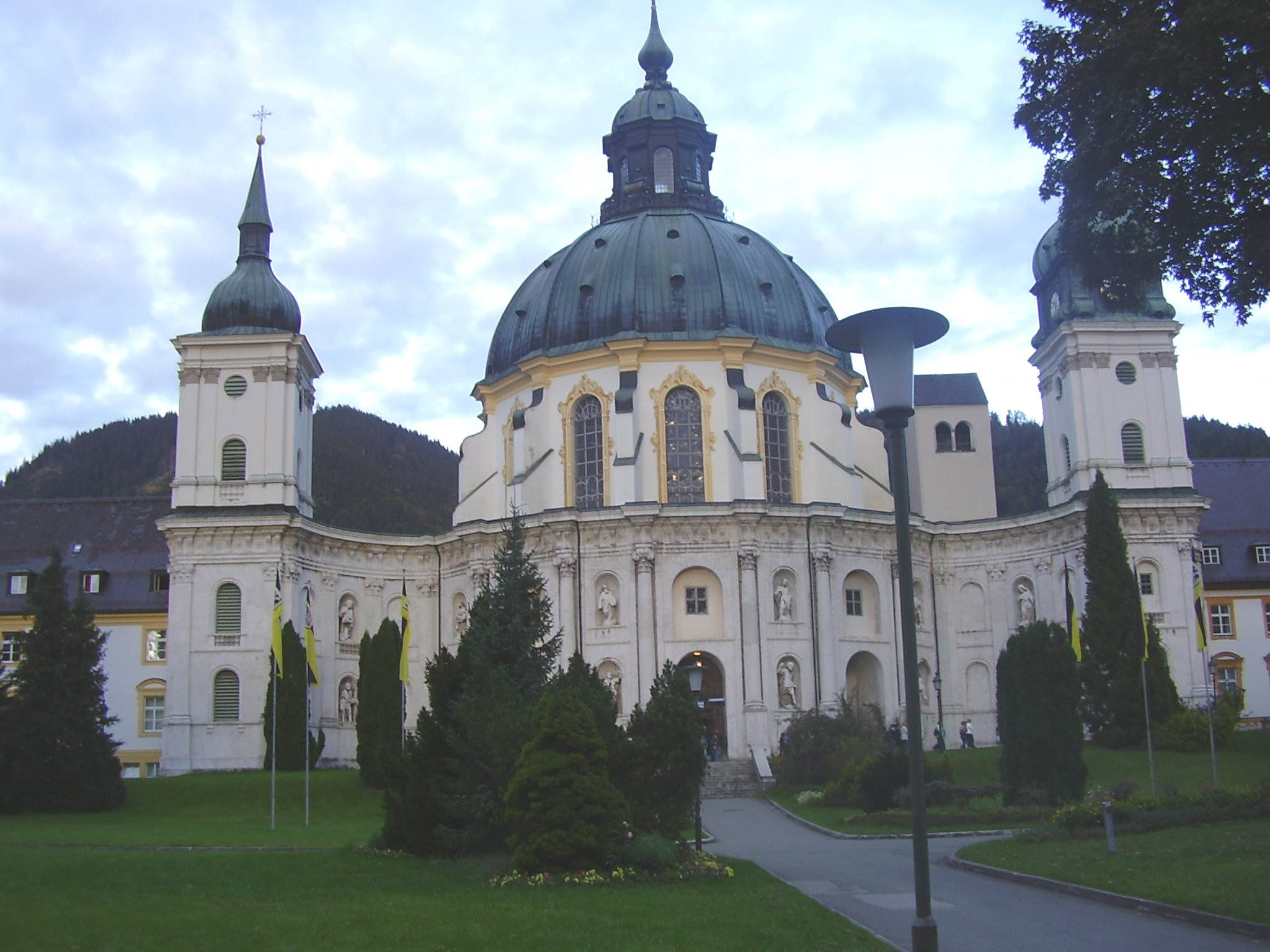 The monastery church of Ettal Die Klosterkirche Ettal Photo taken by Domagoj Krnjak Date: 06 October 2006